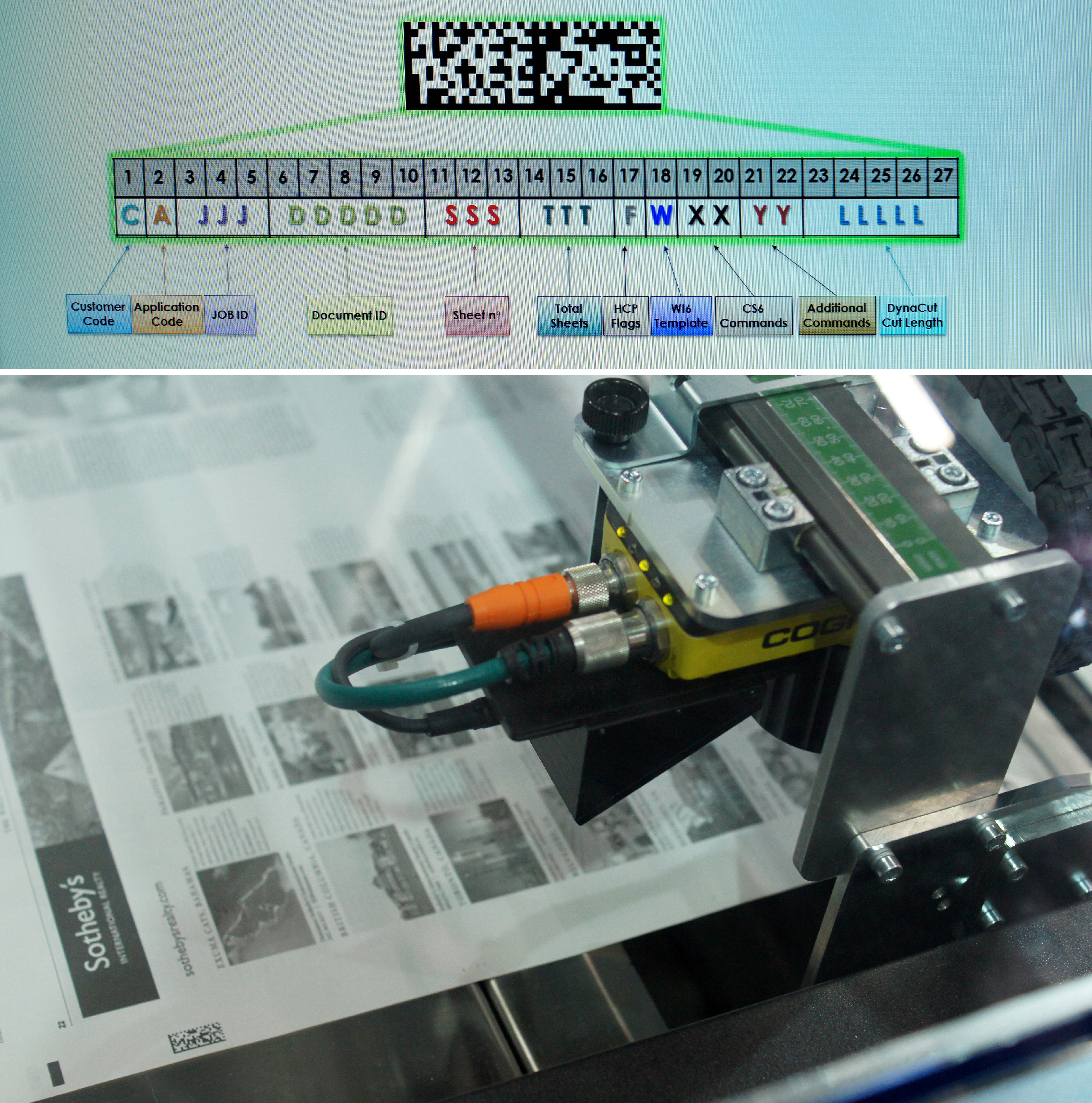 Creation and contents of a datamatrix code to be digitally imprinted in the bleed area for tracking in processes chain